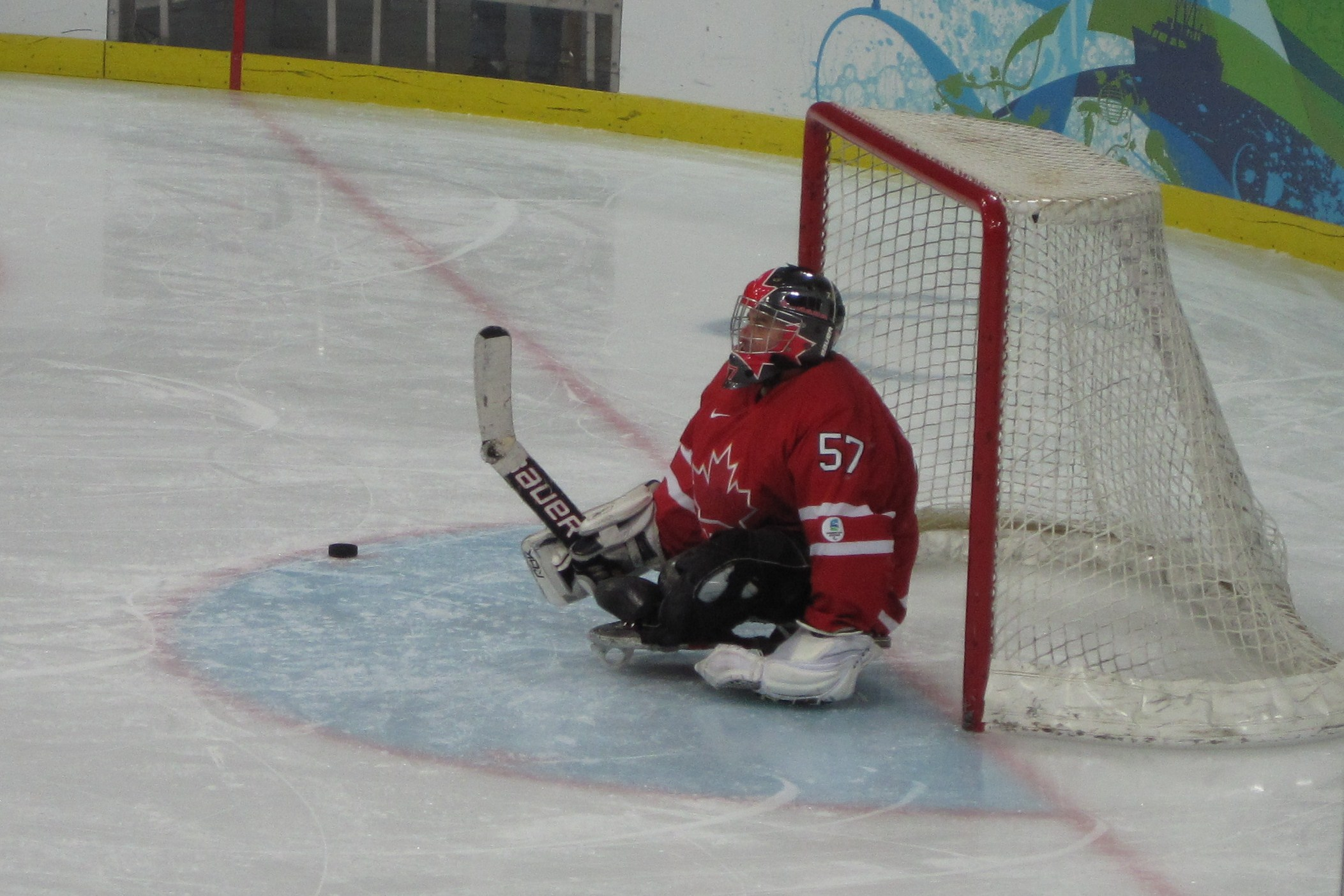 Paul Rosen, goalie for Canada's 2010 Paralympic team, during warmup of their game against Japan.